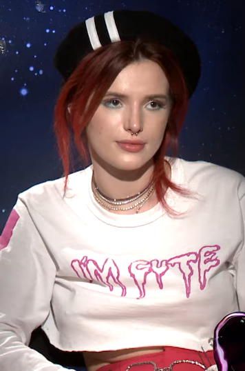 Bella Thorne in 2018